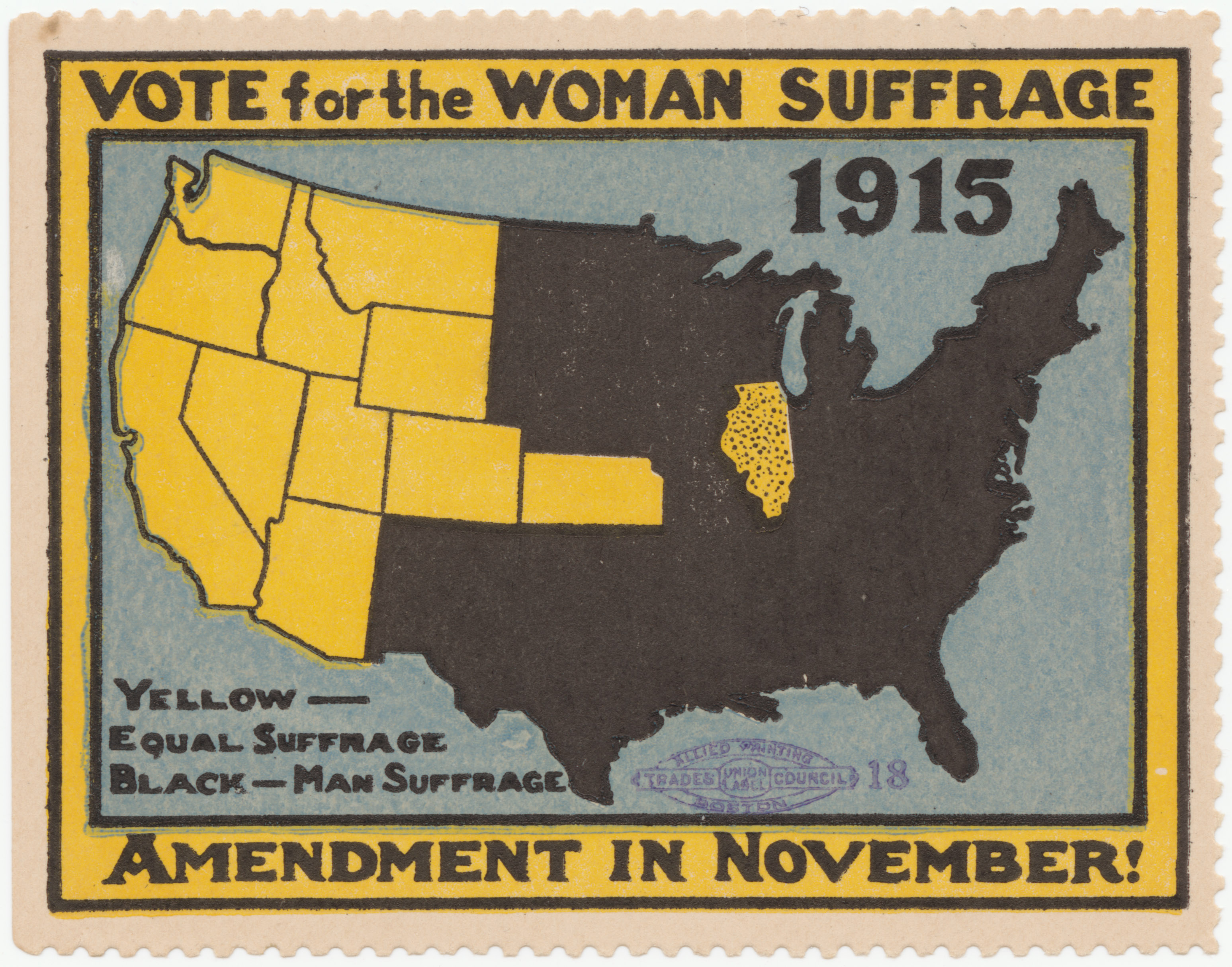 A version of the suffrage map in color for use as a poster stamp.